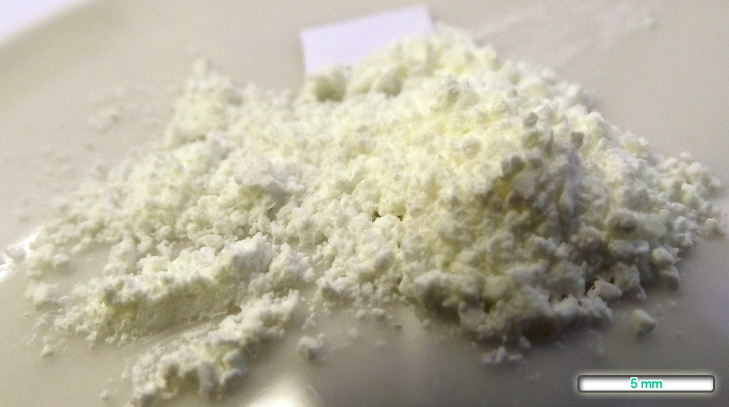 Photo of Amoxicillin, pure